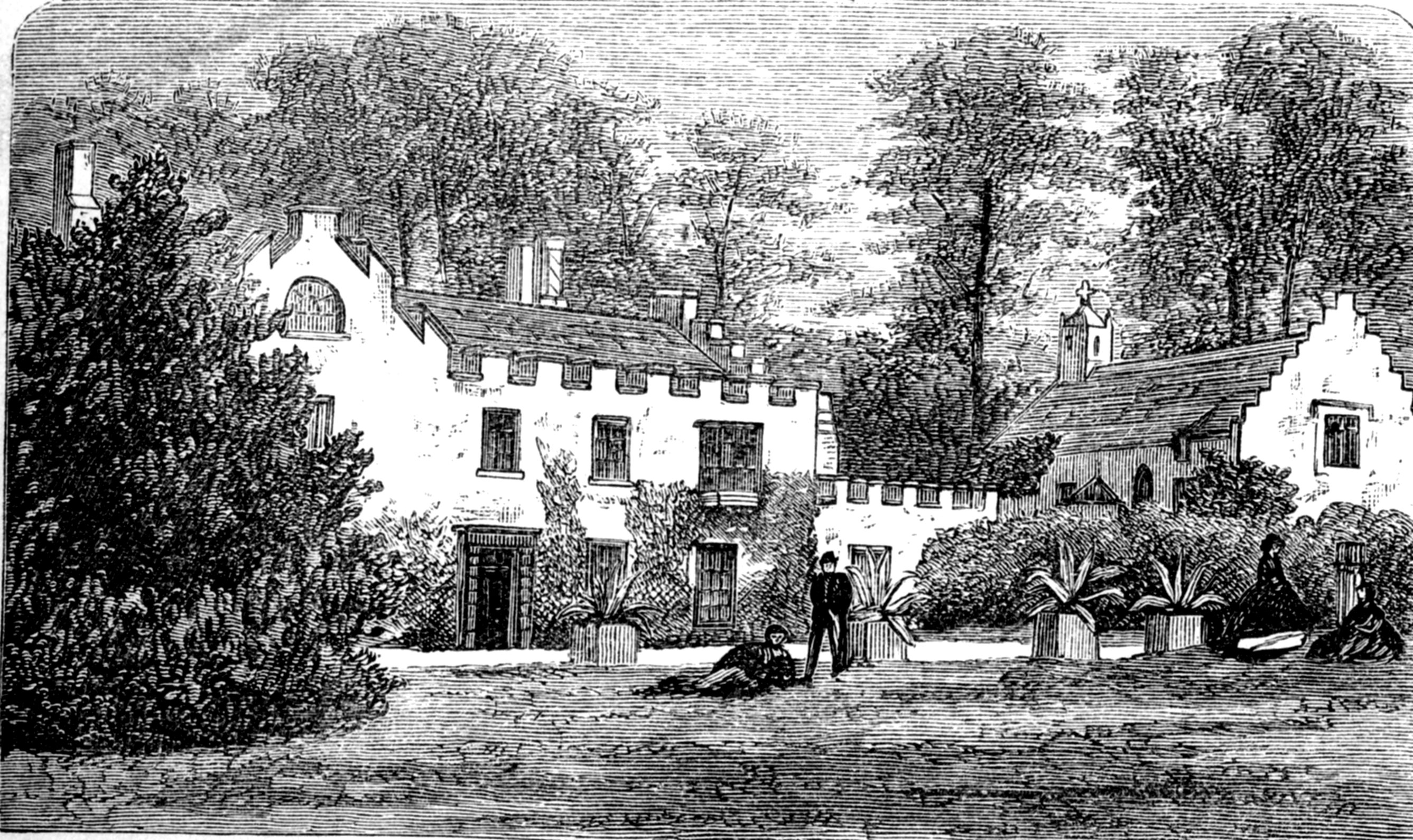 Engraving of Aberpergwm House, Glynneath, Wales. From the book "The History and Antiquities of Glamorganshire and its Families" by Thomas Nicholas (1874), page 17. Caption in book: "ABERPERGWM : THE RESIDENCE OF MORGAN STUART WILLIAMS, ESQ. (from a photograph)."